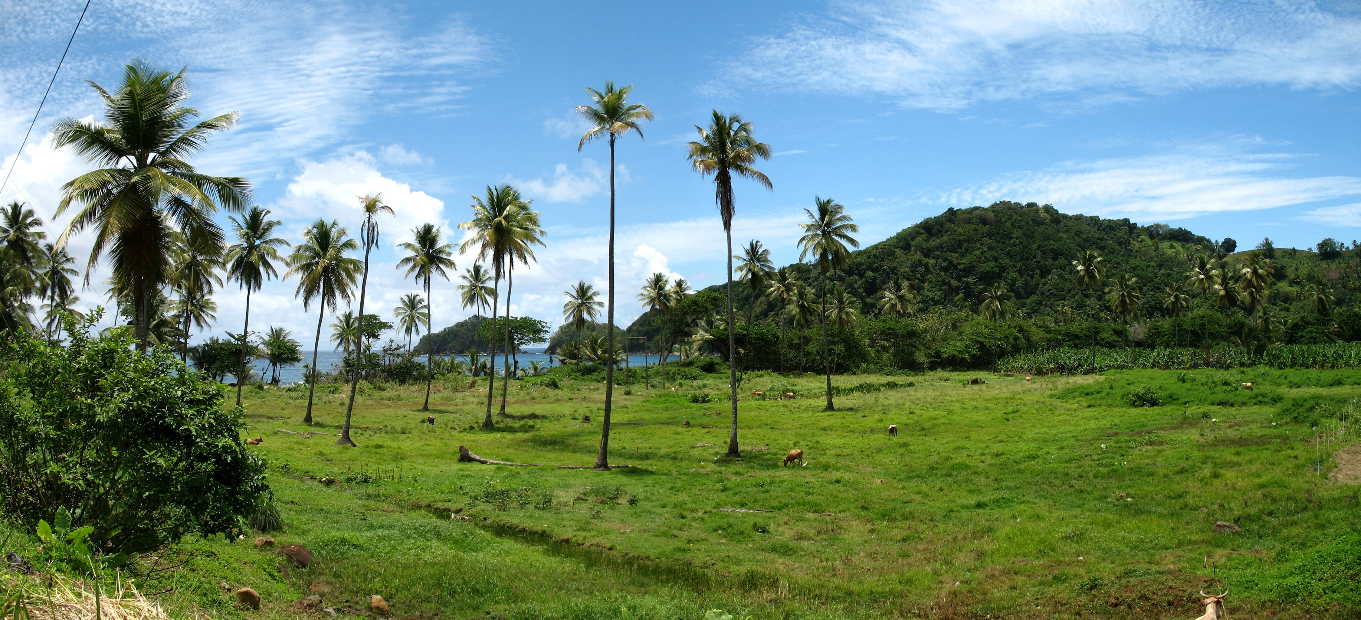 Dominica, Panorama